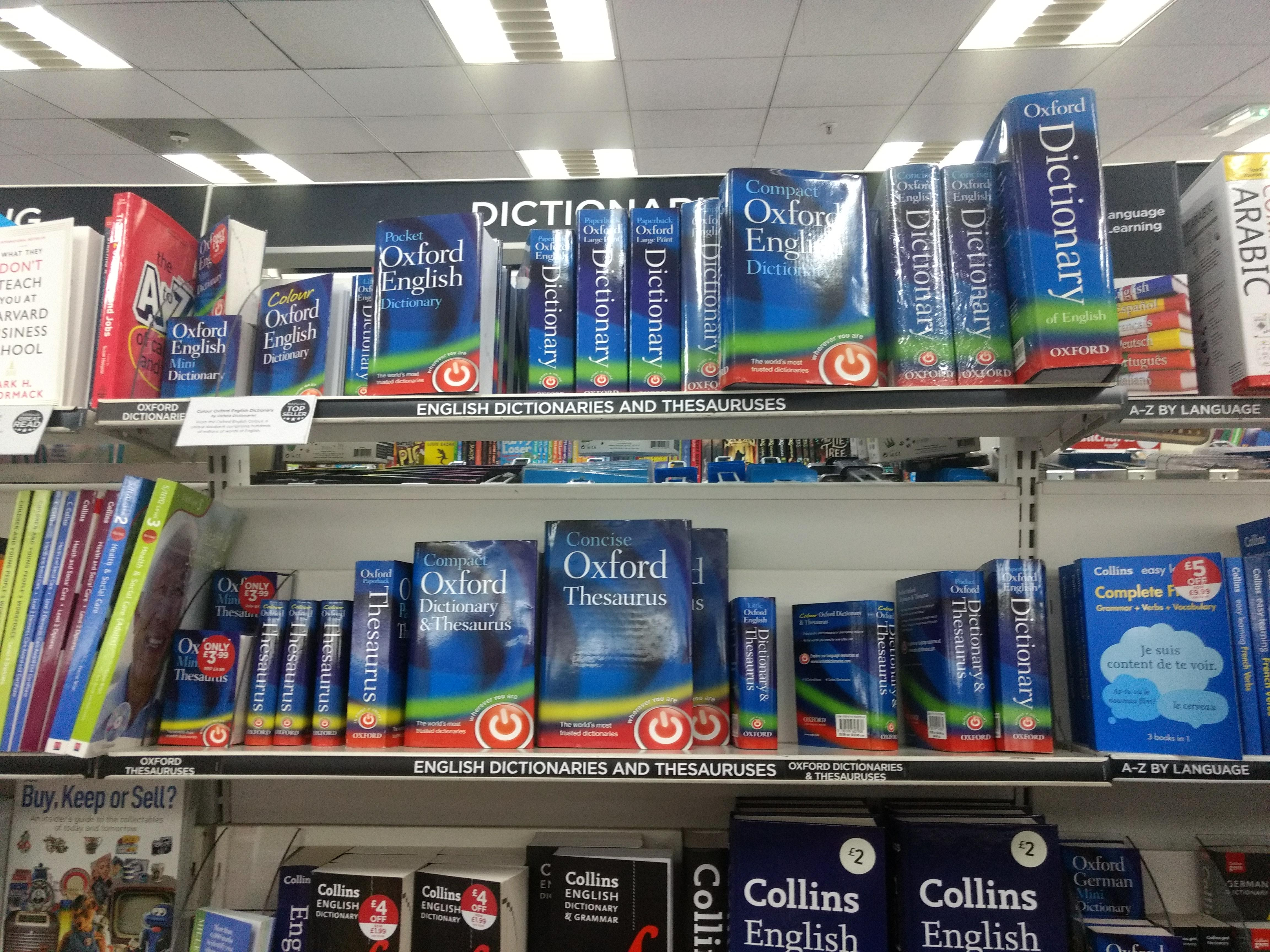 Books at W.H. Smith, Enfield, London.